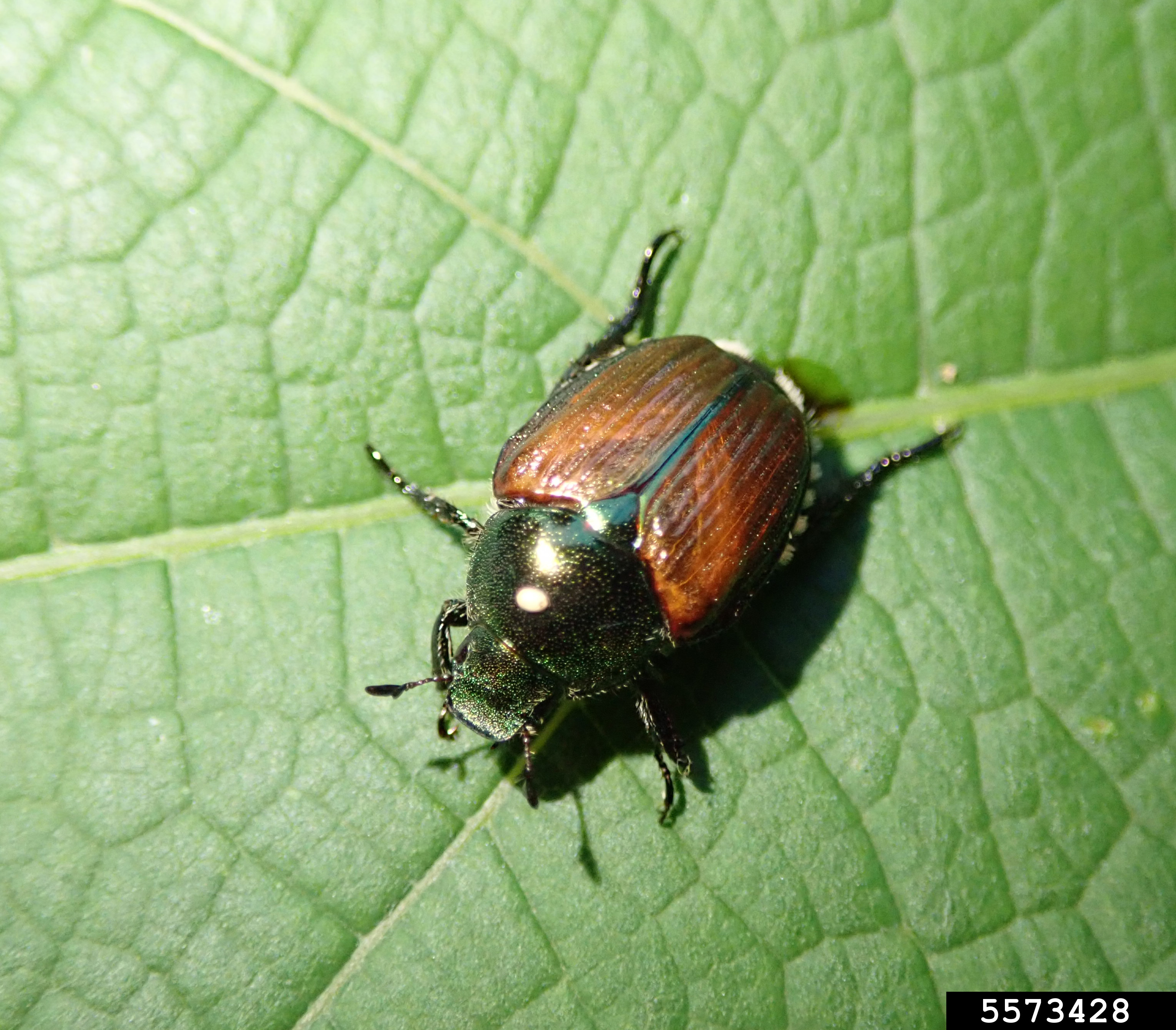 Popillia japonica. Egg of Istocheta aldrichi on the prothorax of a Japanese beetle